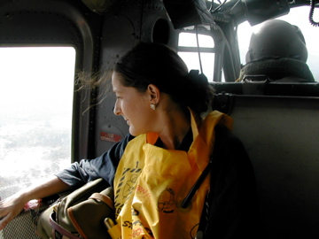 Journalist and writer Frances Harrison on a helicopter in Sri Lanka.